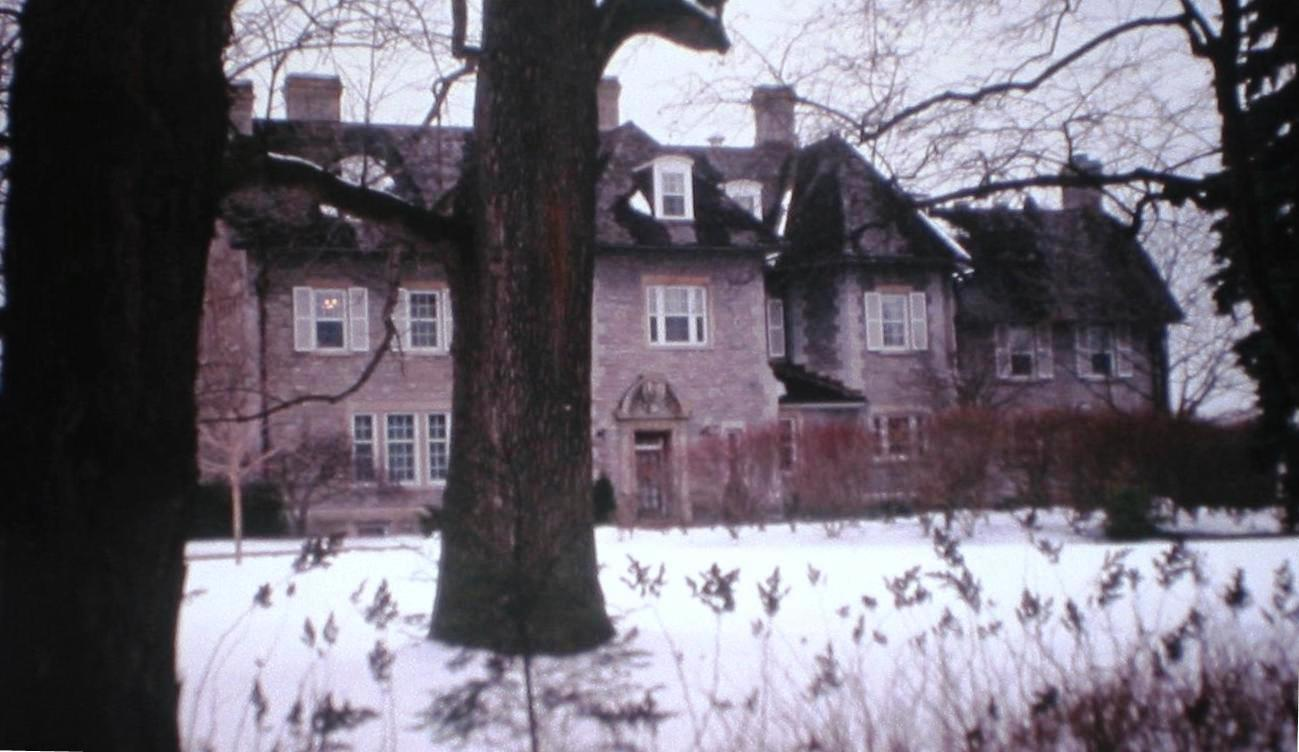 24 Sussex Drive, Ottawa This photo is the uploader's personal property, and it is hereby declared to be PD.